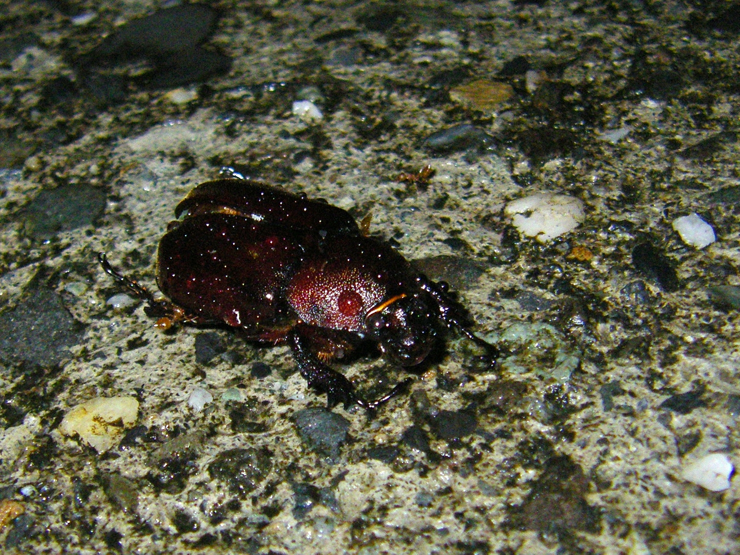 Female specimen of rhinoceros beetle Xylotrupes gideon philippinensis on a road on Orchid Island (Lanyu Township, Taitung County, Taiwan), showing prominent sexual dimorphism with males of the species. Specimen was alive, but with possible damage to wings.